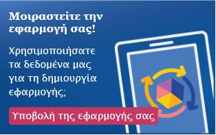 Screenshot from EUODP